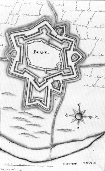 Old map of the fortifications of the town "Burick", present-day Büderich (Wesel)